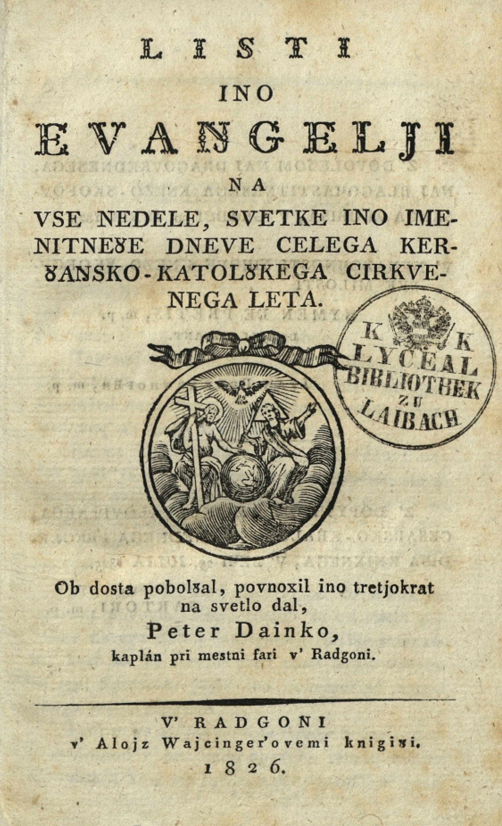 Peter Dajnko: Listi ino evaŋgelji (Epistoles and gospels) in Styrian Slovene from 1826